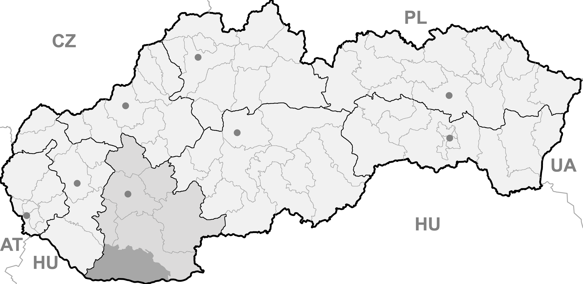 Map of Slovakia, Komárno district and Nitra region highlighted